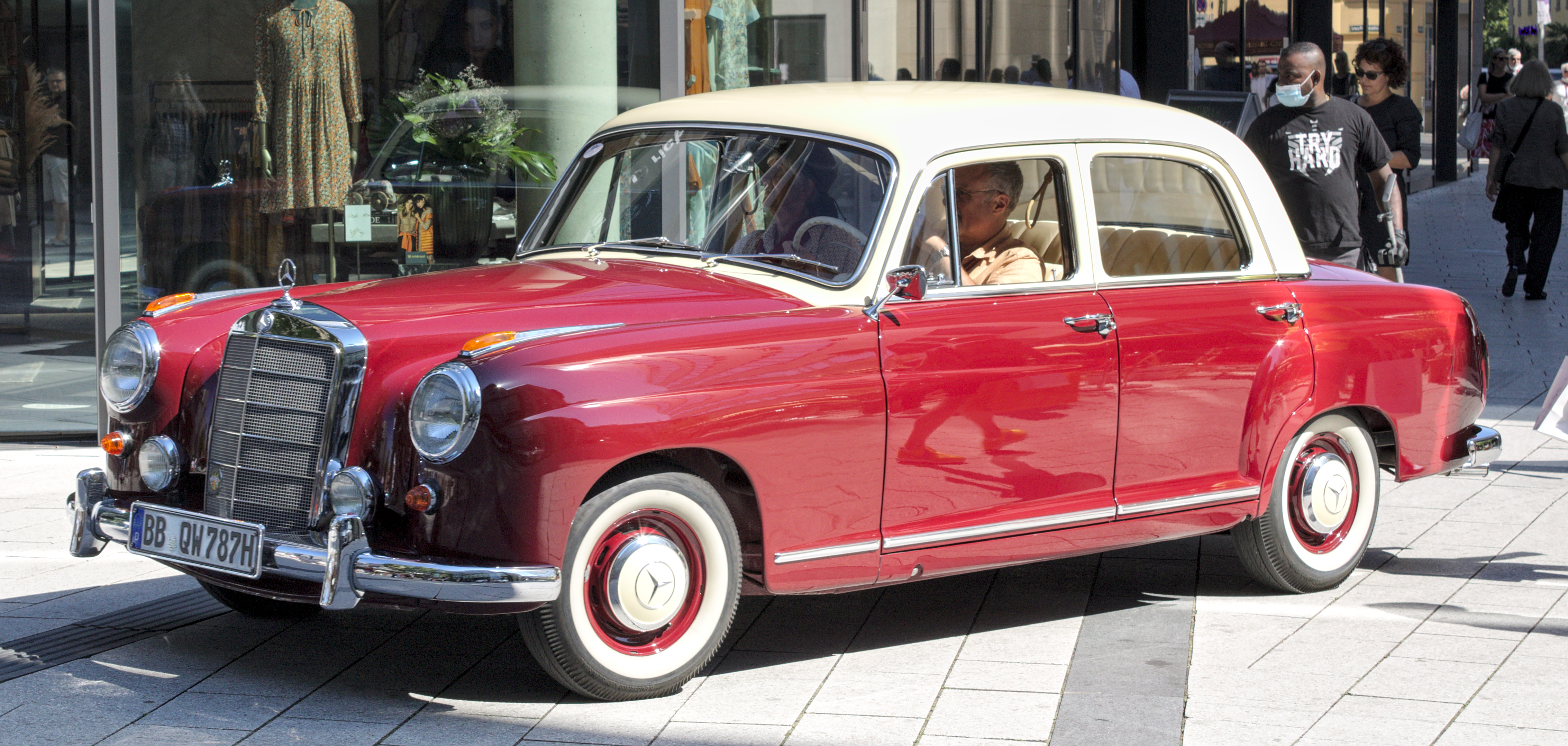 Mercedes-Benz_W105 in Stuttgart